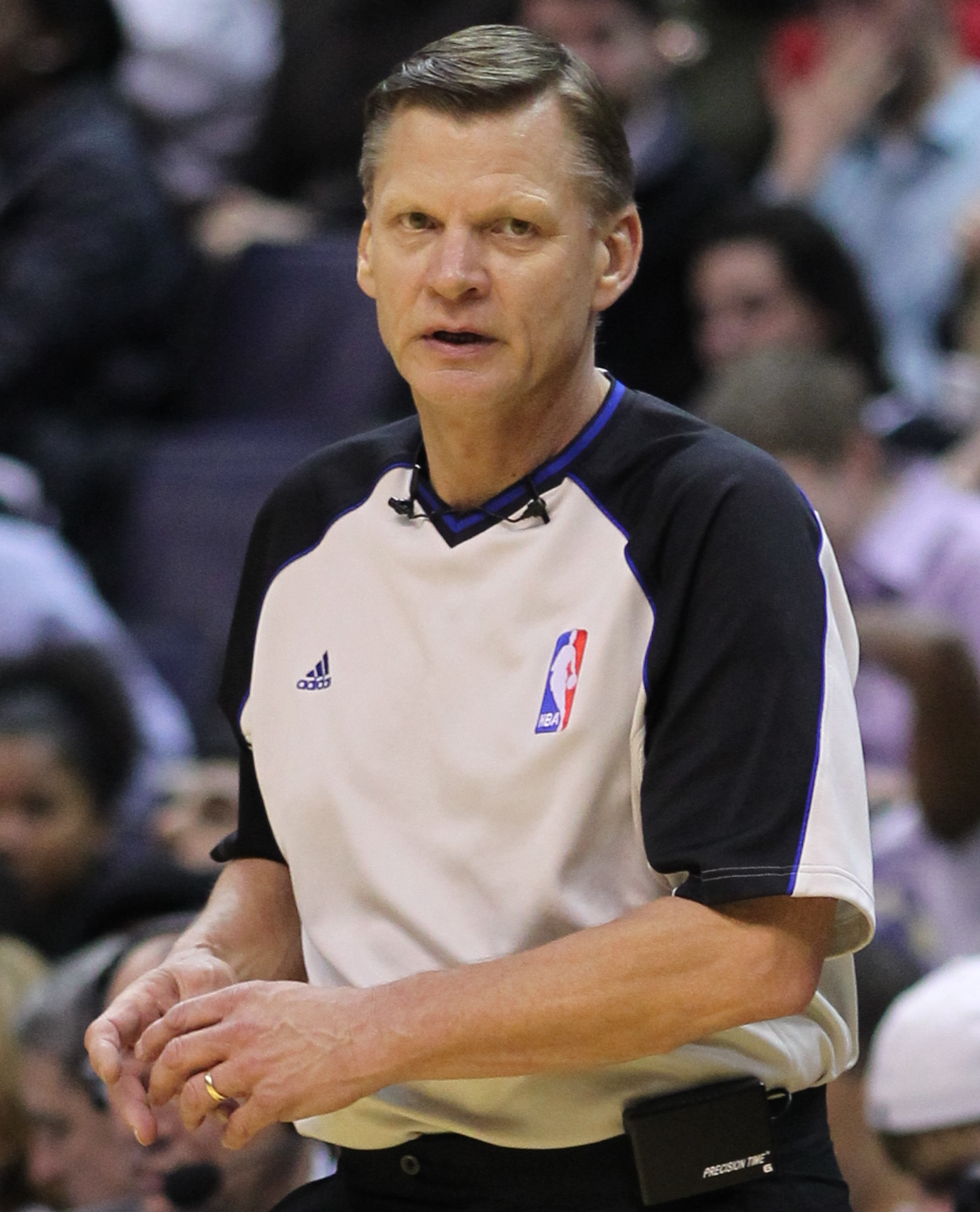 Wizards v/s Timberwolves 03/05/11